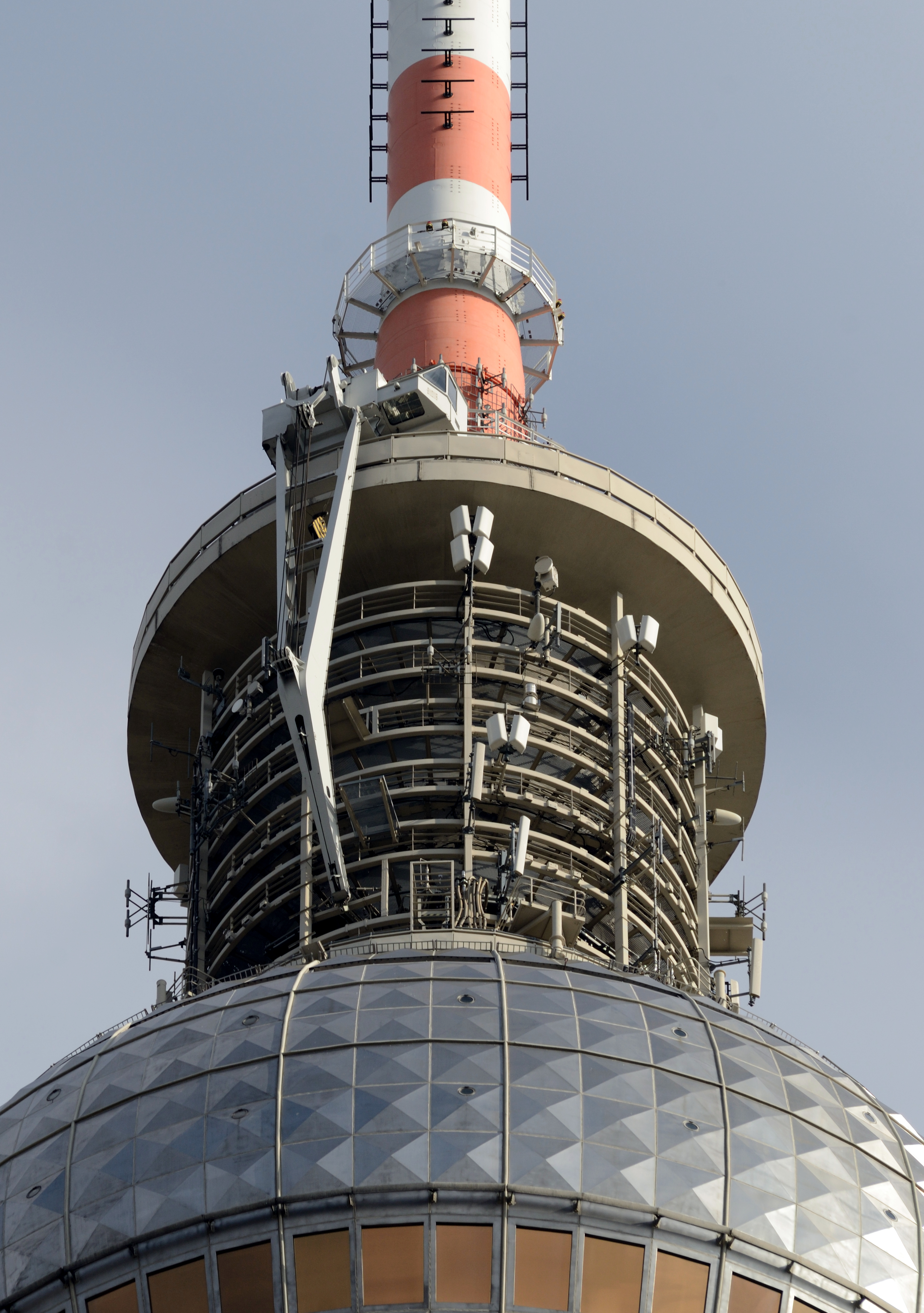 Berlin TV Tower: radio link platforms